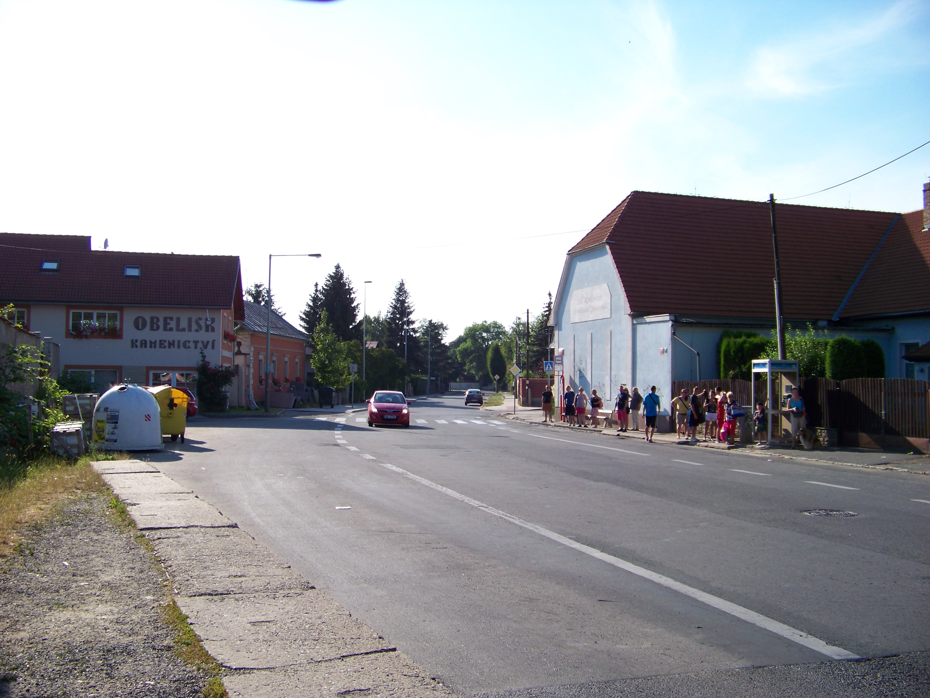 Prague-Horní Počernice. Svépravice, Božanovská street.